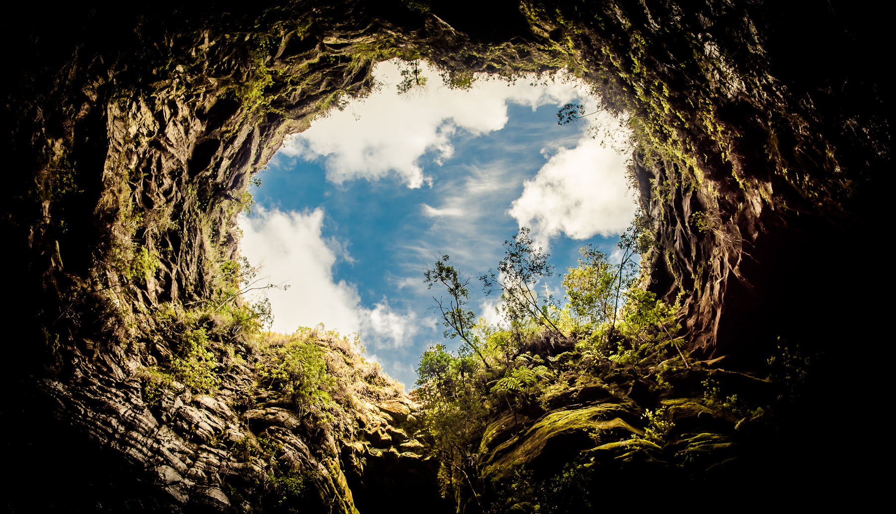 Hole of the Priest - Ponta Grossa - PR Sight of the inward of the cave National park of the Campos Gerais